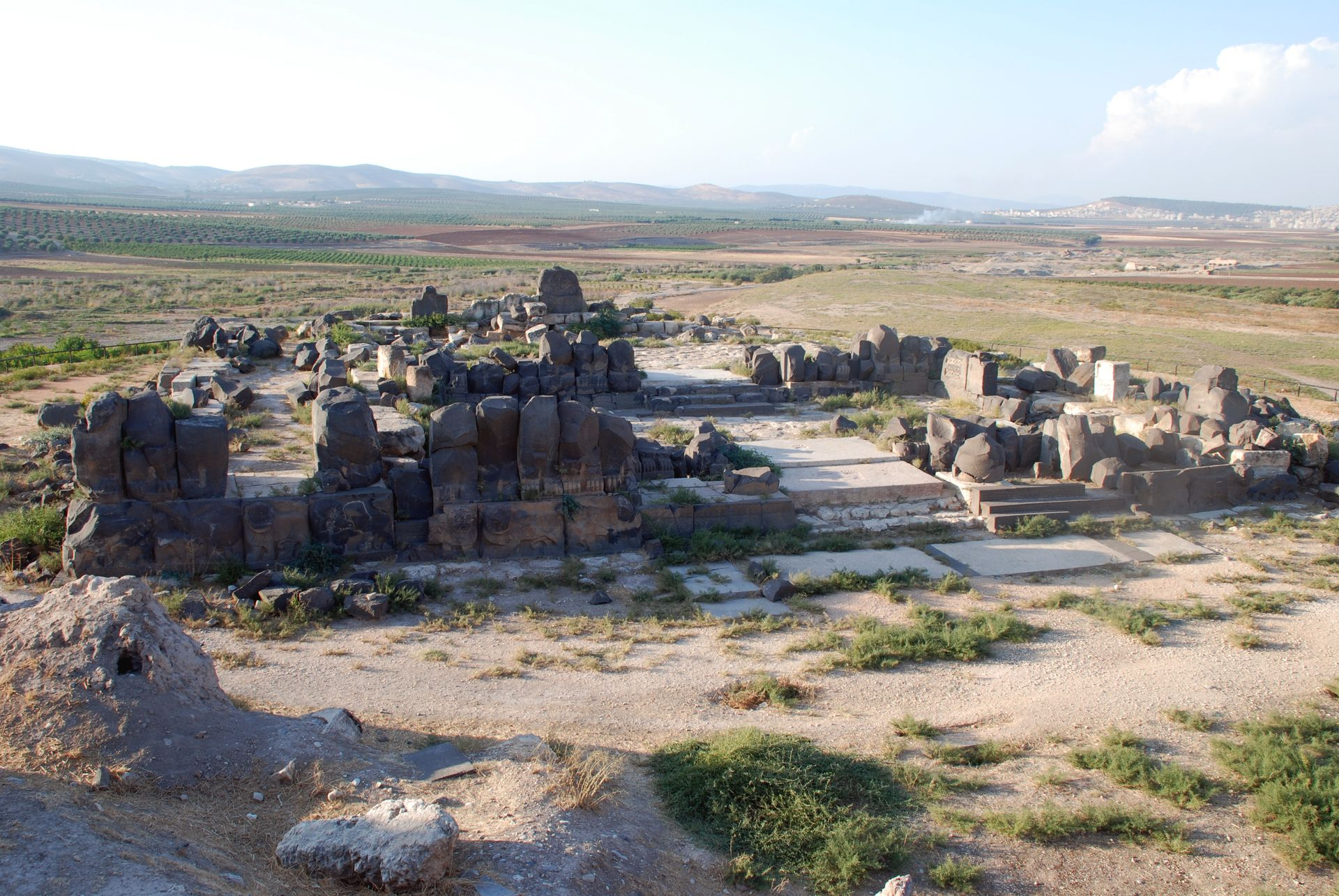 Tell Ain Dara, south of Afrin, Syria. Temple from southeast